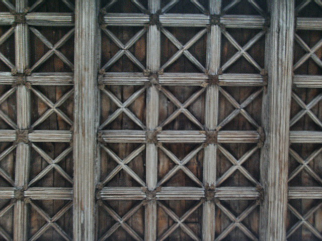 St Wilfrid's Parish Church, Standish, Ceiling This is one of the best examples of this type of ceiling in the country